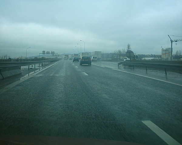 Author: Gregory Deryckère